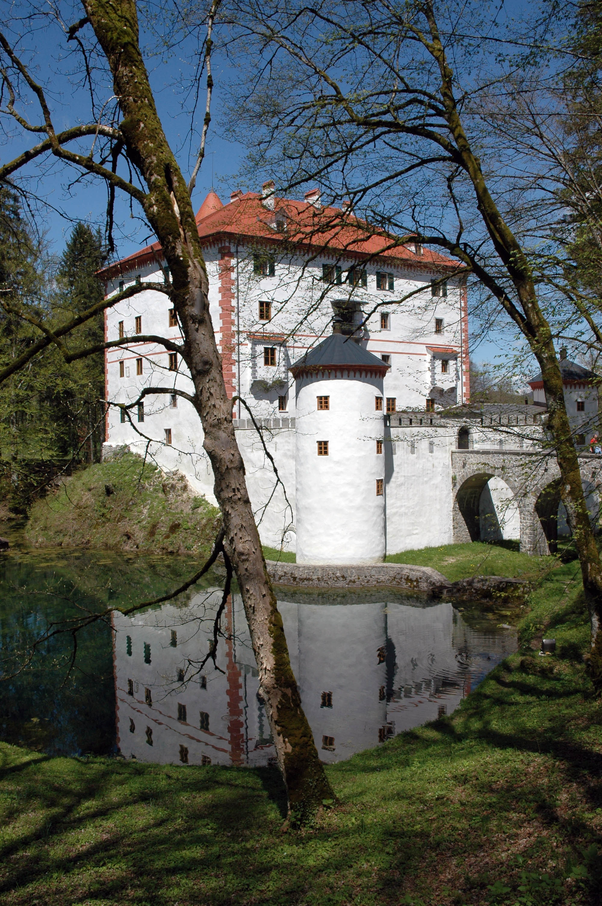 Castle Snežnik, Slovenia, after renovation